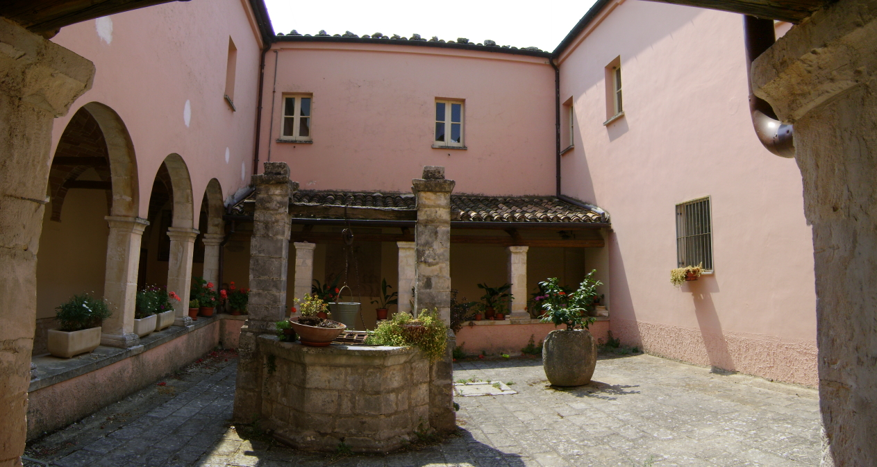 The cloister of the Capuchin monastery in Guardiagrele, in the province of Chieti, Abruzzo